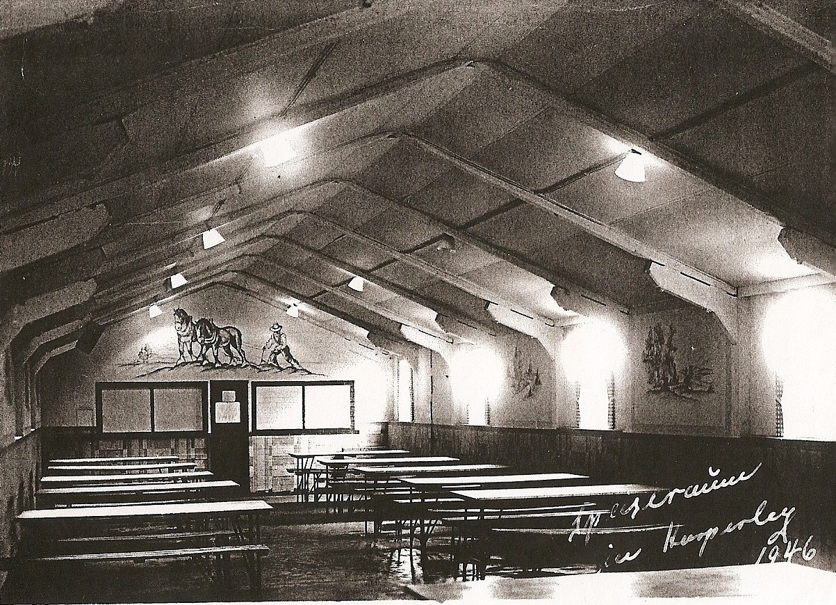 Internal Historic photo of Harperley PoW Kantine in 1946